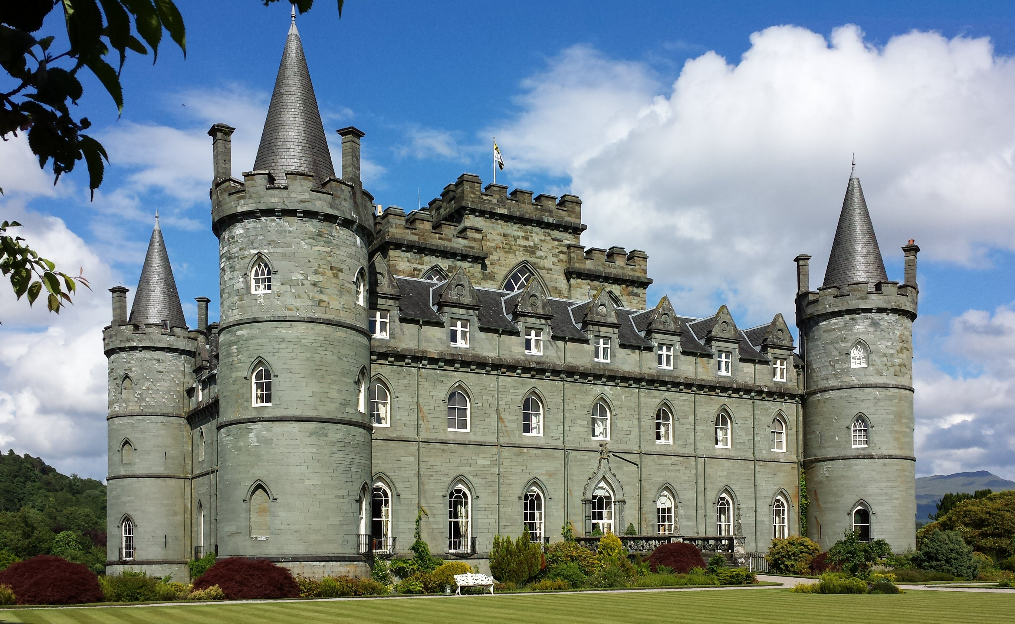 Inveraray Castle, Scotland from the south-west.